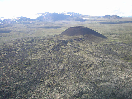 Eve Cone, northern British Columbia, Canada.